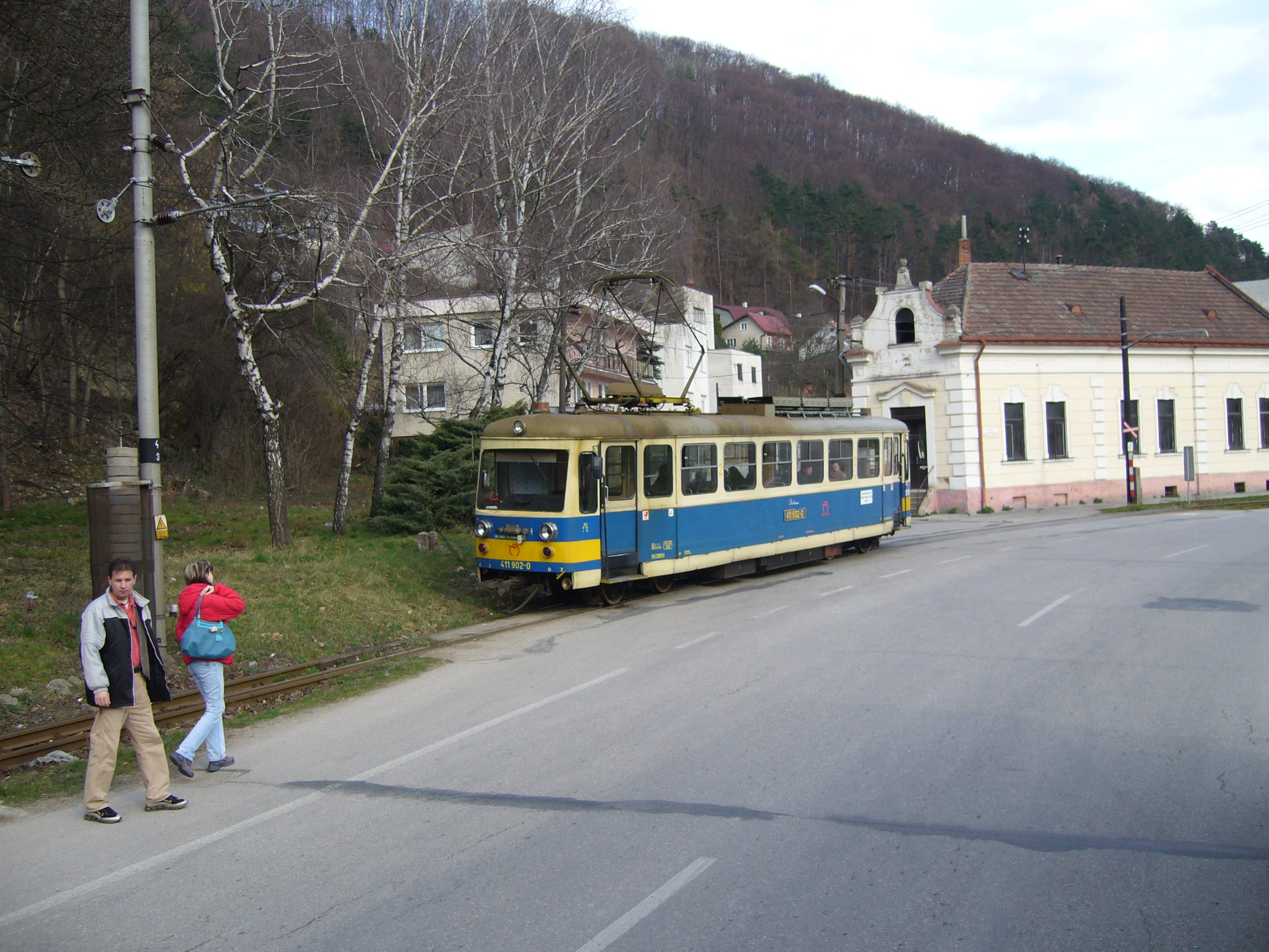 Class 411.9 electric train on the Trenčin electric railway in Slovakia